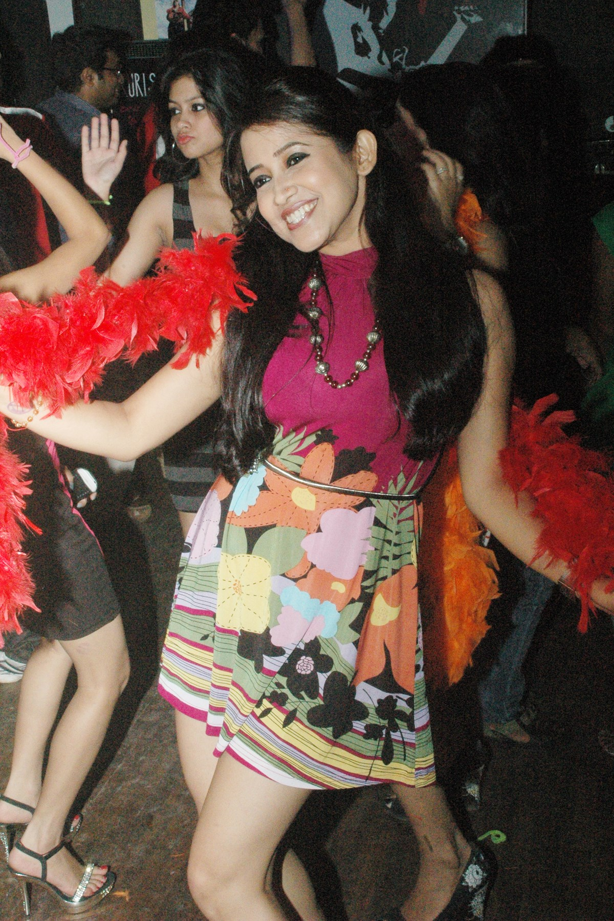 Barsha during dancing